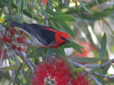 Scarlet Honeyeater in Bottlebrush.